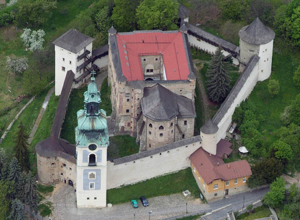 Banská Štiavnica, Slovakia, castle, aerial photography